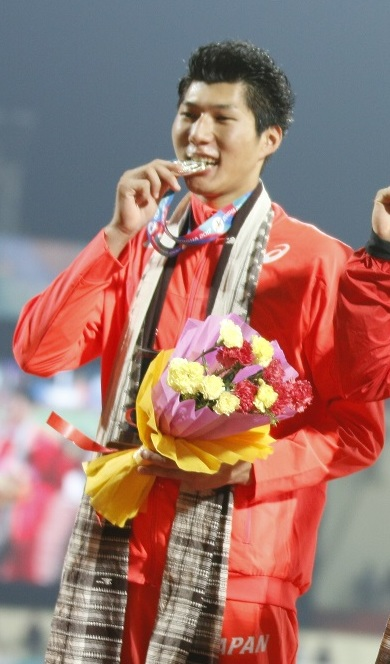 Athletes during 22nd Asian Athletics Championships in Bhubaneswar.